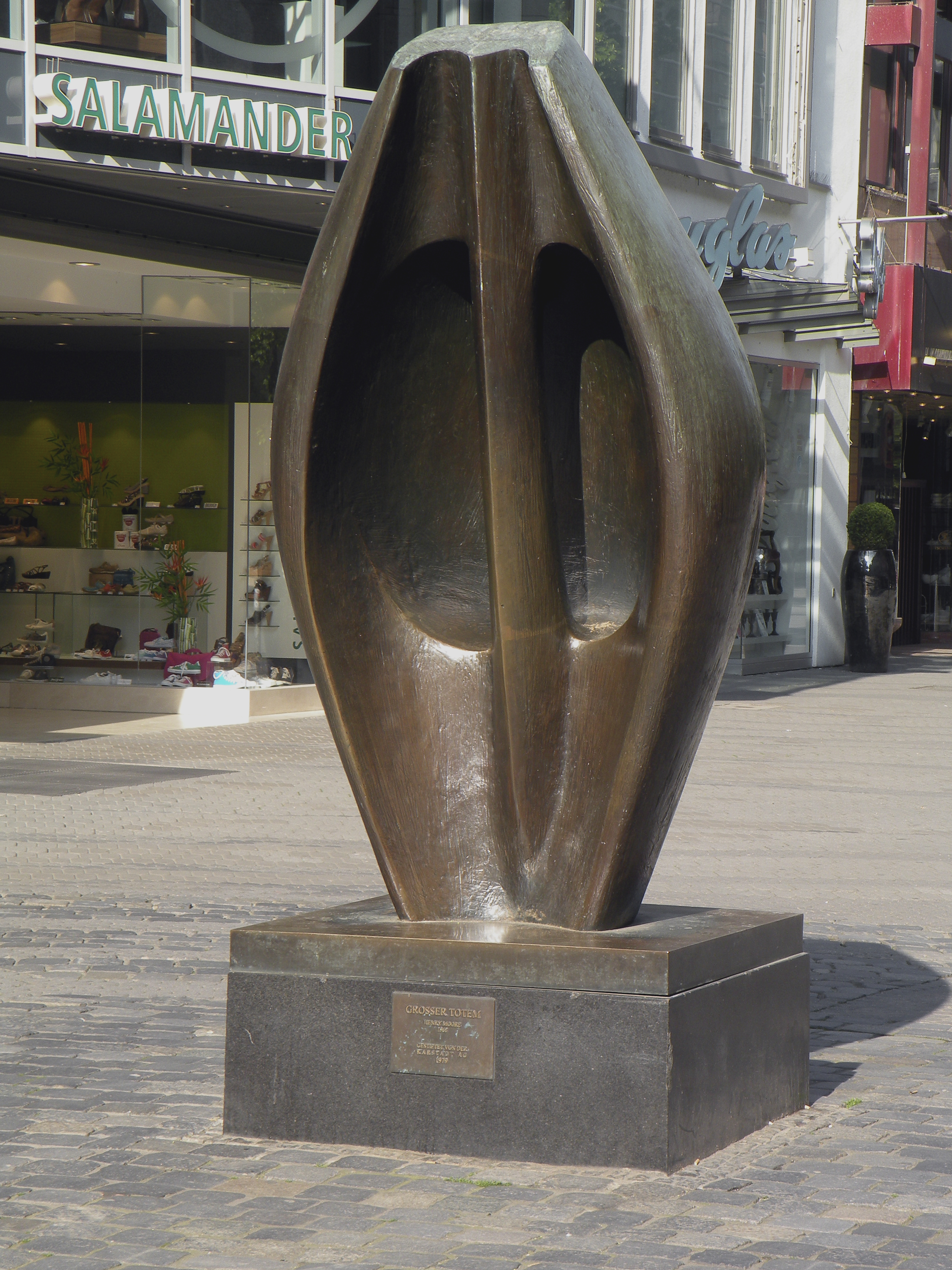 Grosser Totem of Henry Moore